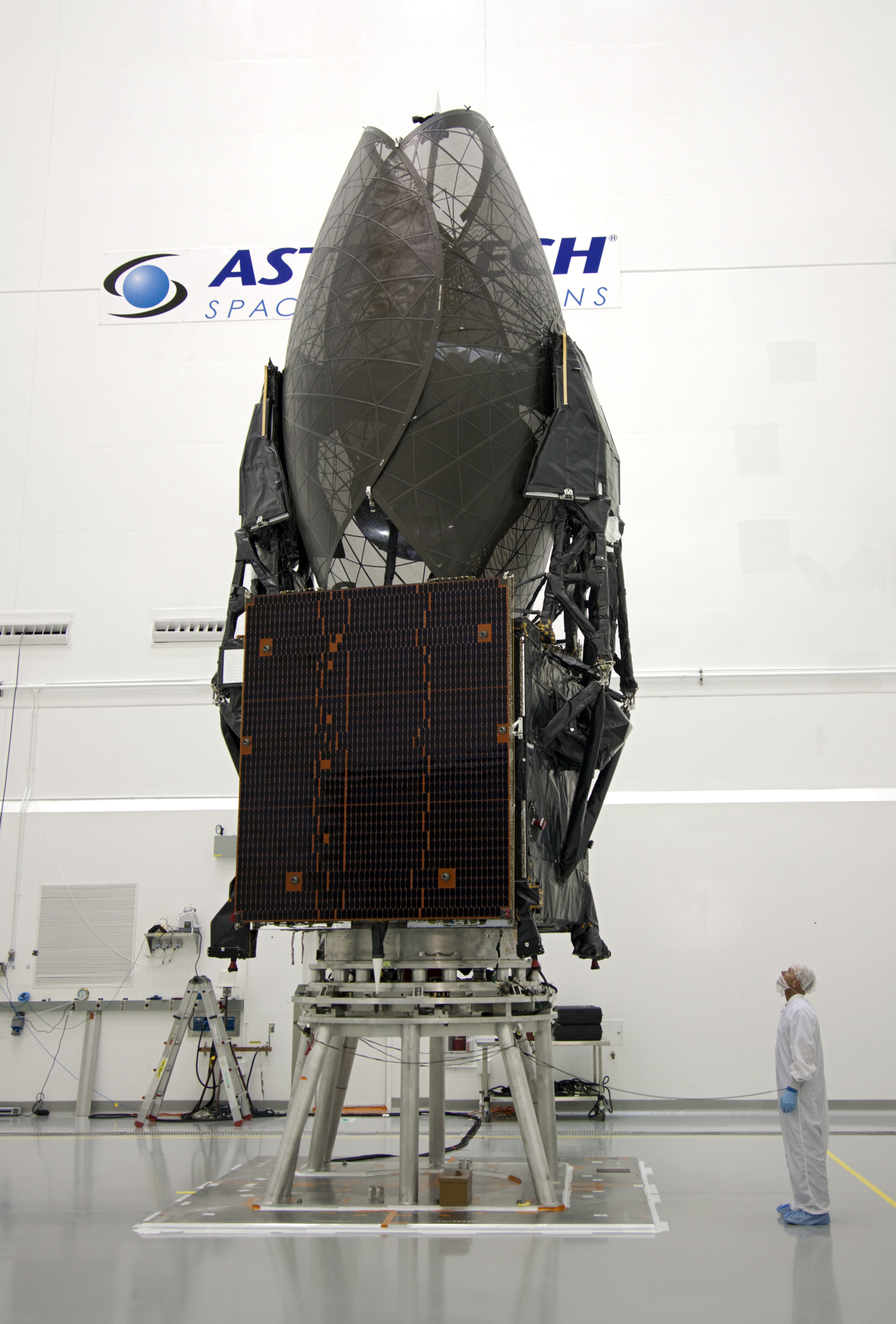 TITUSVILLE, Fla. - In the Astrotech payload processing facility in Titusville, Fla. near NASA’s Kennedy Space Center, a Boeing technician checks out the Tracking and Data Relay Satellite, TDRS-K. Launch of the TDRS-K on the Atlas V rocket is planned for January 29, 2013. The TDRS-K spacecraft is part of the next-generation series in the Tracking and Data Relay Satellite System, a constellation of space-based communication satellites providing tracking, telemetry, command and high-bandwidth data return services. For more information, visit Photo credit: NASA/Jim Grossmann